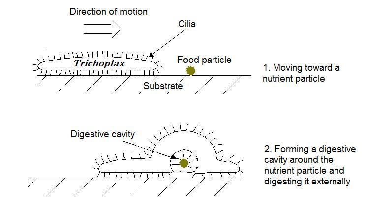 Exodigestion in Trichoplax adhaerens (Placozoa)